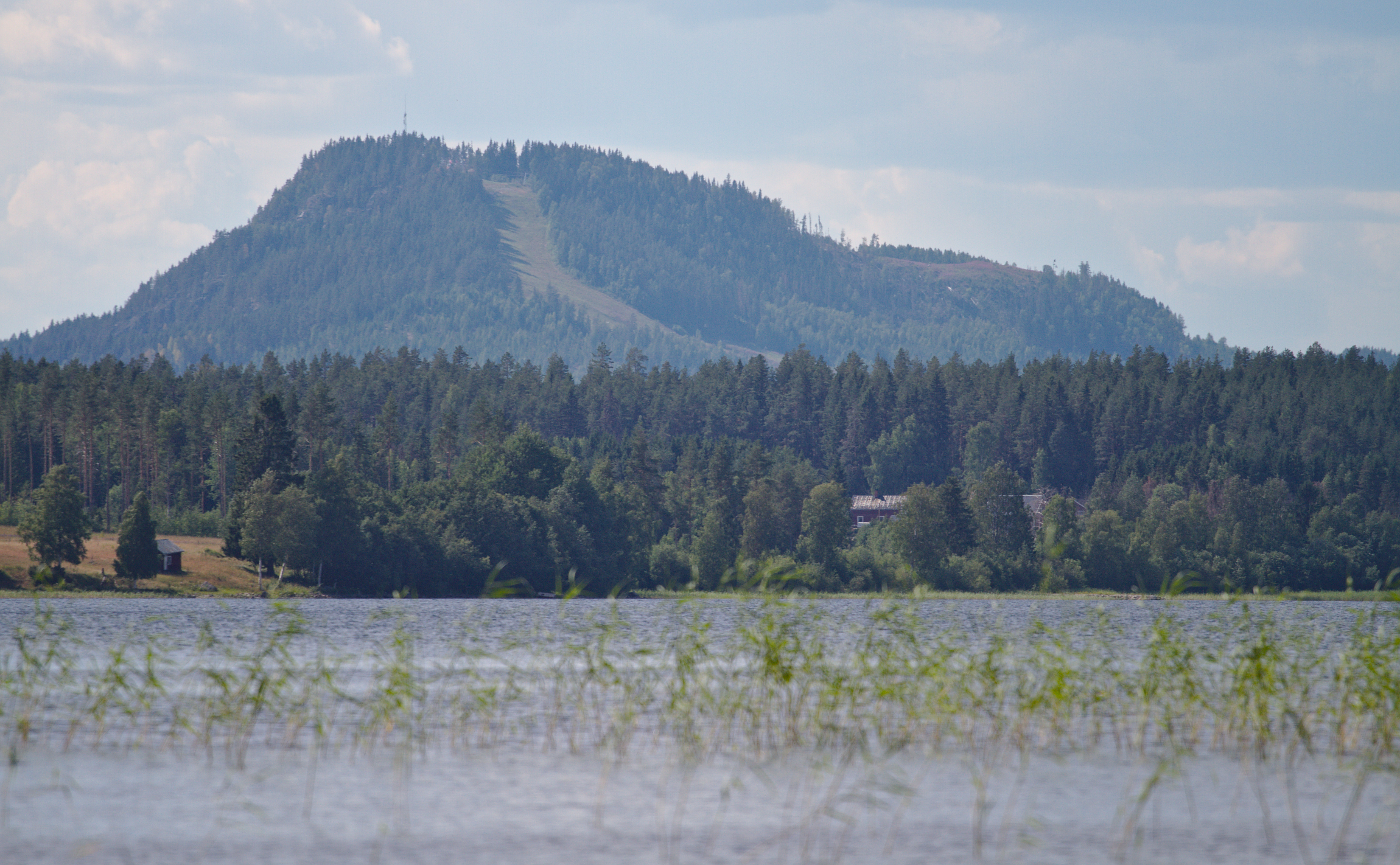 Vy över Gissjön med Getberget i bakgrunden